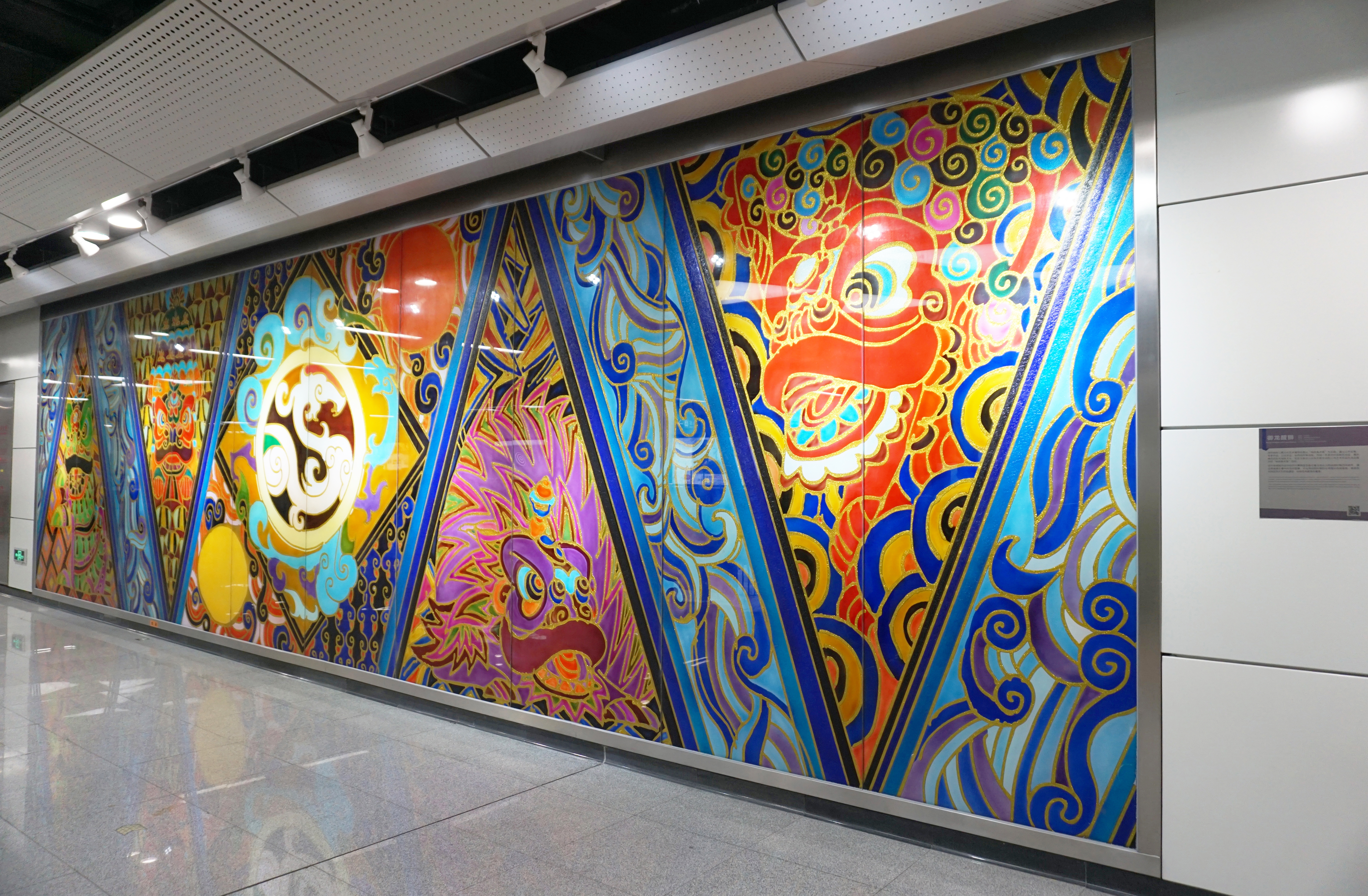 Chaguang Station in Nanshan, Shenzhen.